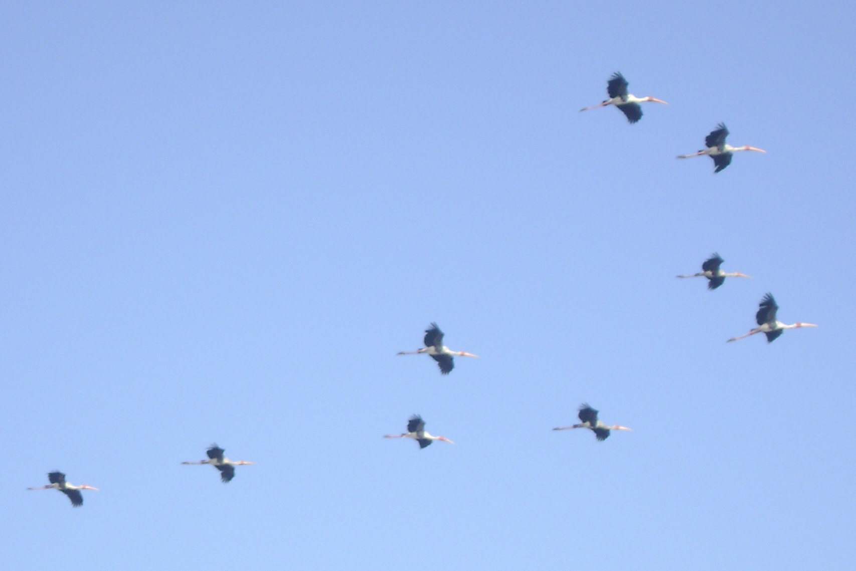 Point Calimere Wildlife and Bird Sanctuary, Flight of Painted stork at PCWBS